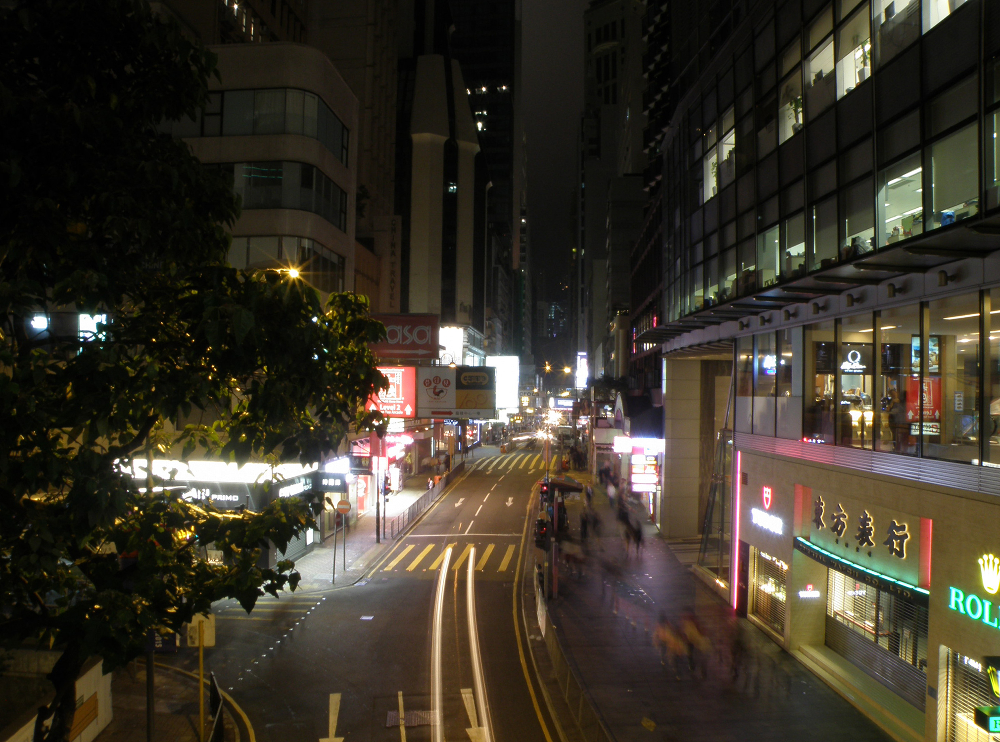 Queen's Road Central in Central, Hong Kong.